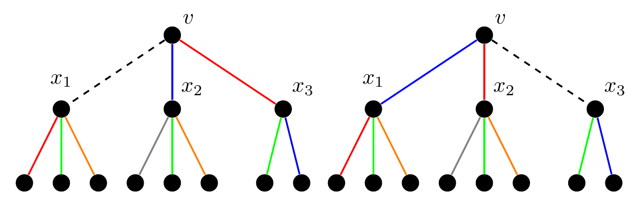 Illustrates the process of rotating a fan in the Misra and Gries edge coloring algorithm